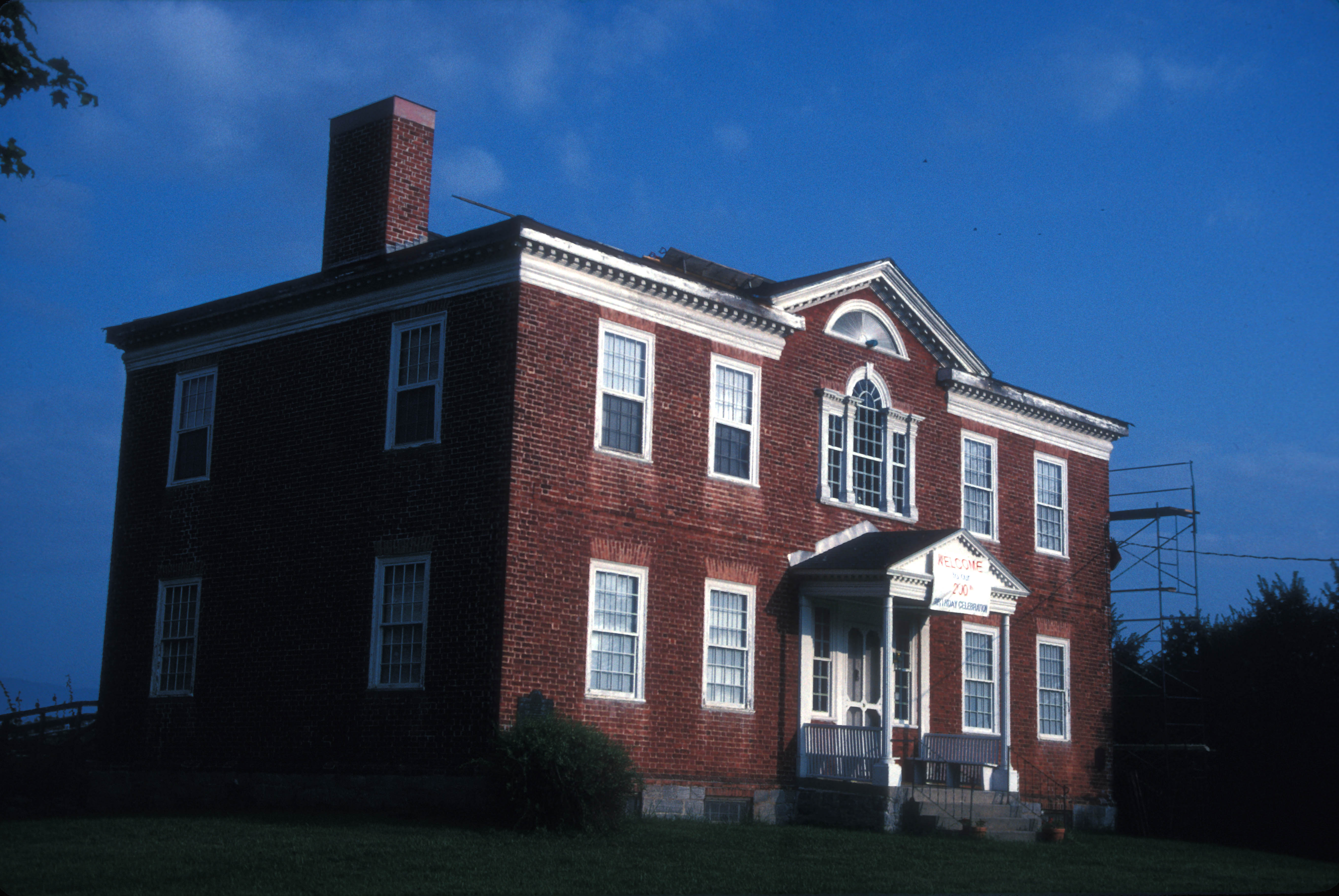 GENERAL JOHN STRONG HOUSE – 1796 HOME OF REVOLUTIONARY WAR GENERAL; NOW OWNED BY DAR